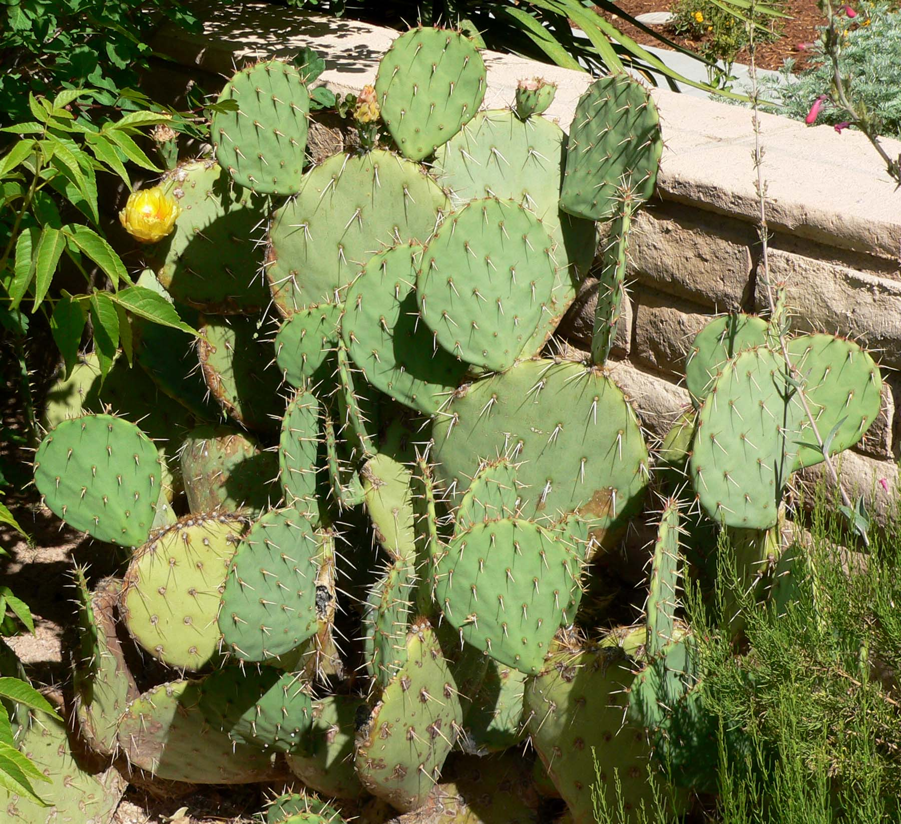 Photo of Opuntia engelmannii var engelmannii at the Springs Preserve garden in Las Vegas, Nevada. This is said to be ssp. aciculata, but does not at all look like one.